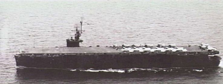 The U.S. Navy escort carrier USS Fanshaw Bay (CVE-70) transporting U.S. Army Air Forces aircraft on 9 February 1944. Indentifiable are 13 Curtiss P-40 Warhawk and a Republic P-47 Thunderbolt.